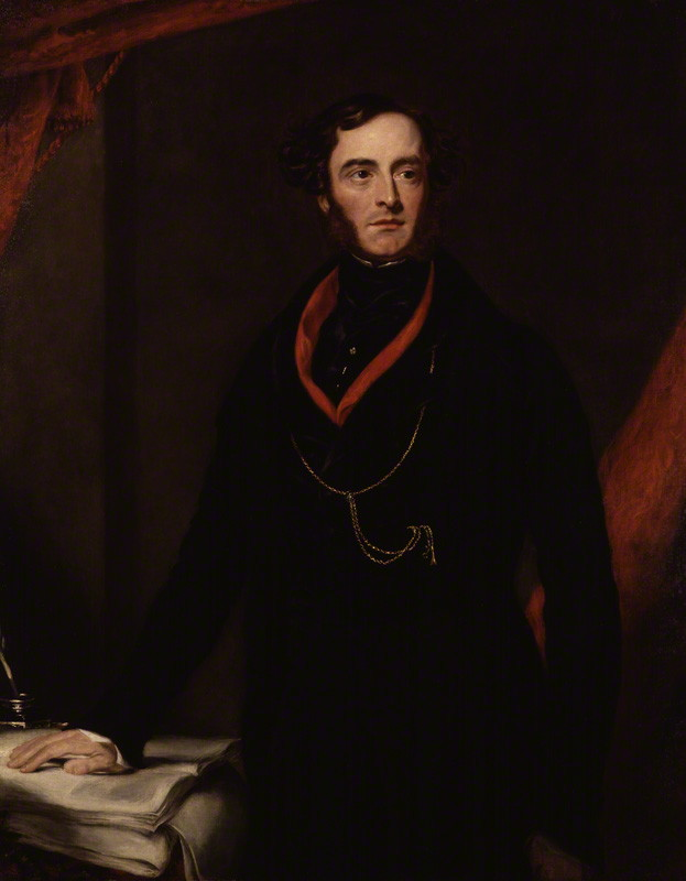 by Samuel Lane, oil on canvas, circa 1836